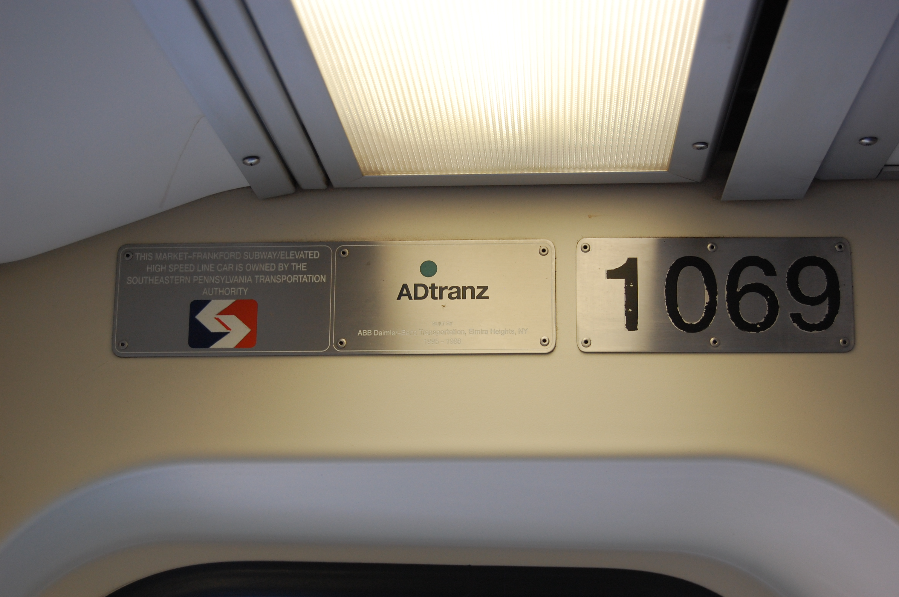 Plaque of ownership and manufacture aboard a SEPTA MFL train.